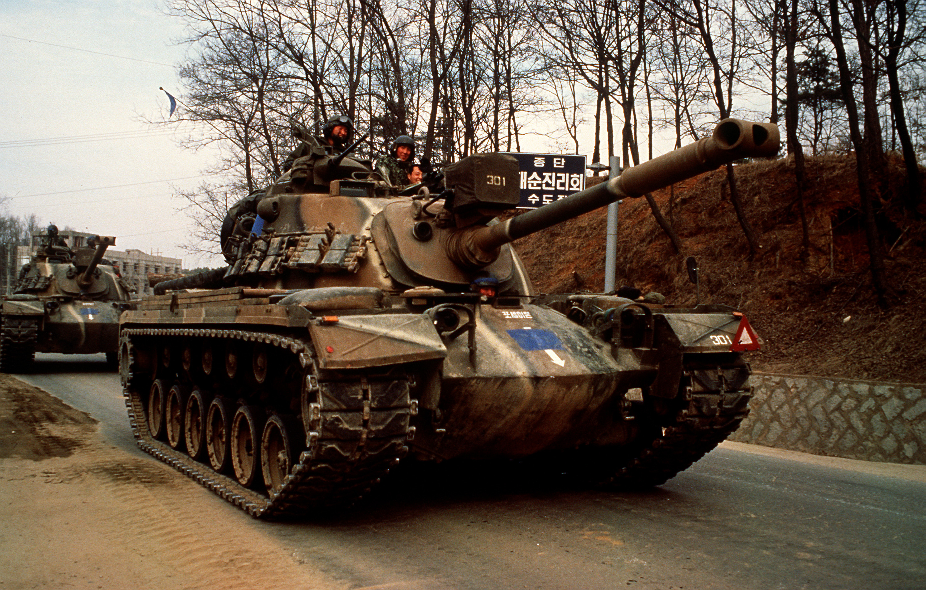 Two South Korean M-48 tanks advance down a road during the joint South Korean/U.S. Exercise Team Spirit '89. Photographer's Name: UNKNOWNLocation: unknown Date Shot: 3/24/1989Date Posted: unknownVIRIN: DA-ST-91-01540